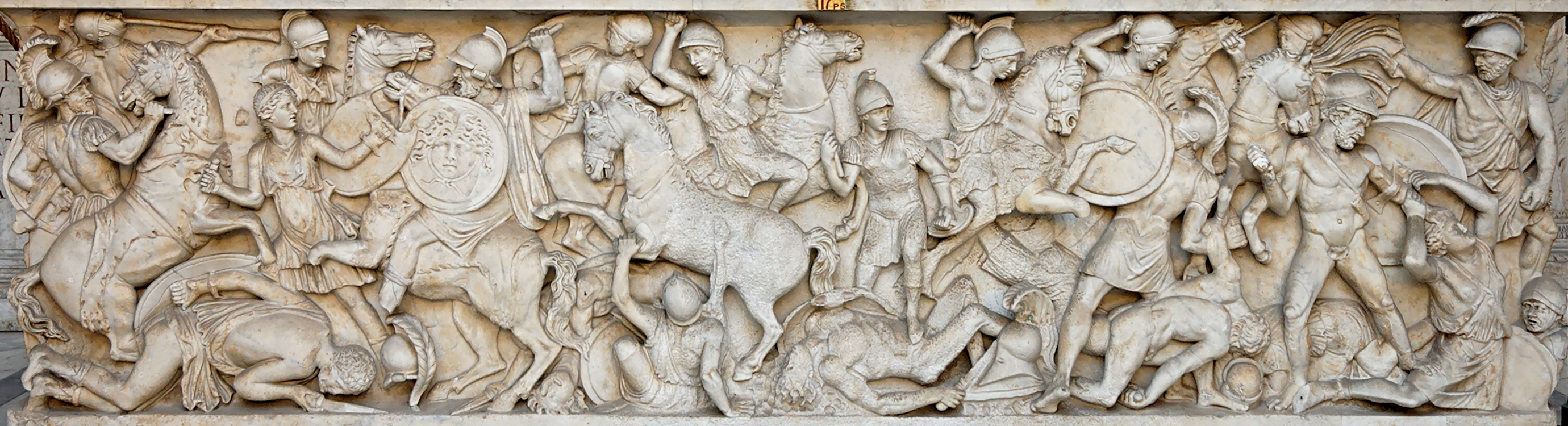 Amazonomachia: fight between Greek warriors and Amazons. Marble, sarcophagus panel, ca. 160–170 CE. Served as basin for the Tigris fountain.